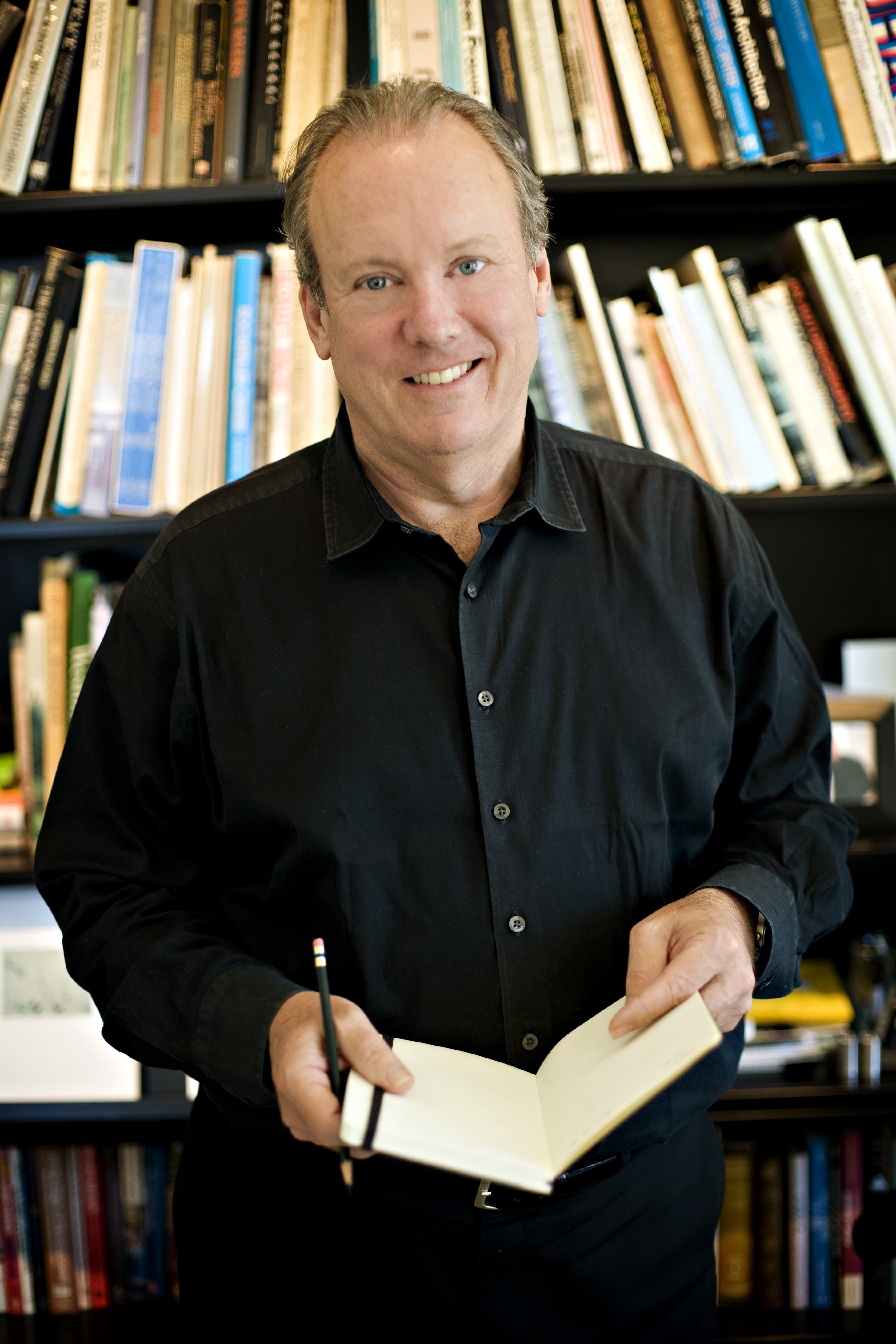 William McDonough, architect, author of Cradle to Cradle: Remaking the Way We Make Things and The Upcycle: Beyond Sustainability—Designing for Abundance.